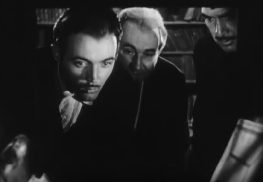 Left to right: John Alvin, Charles Dingle, and J. Carrol Naish in The Beast with Five Fingers (1946) - trailer (cropped screenshot)